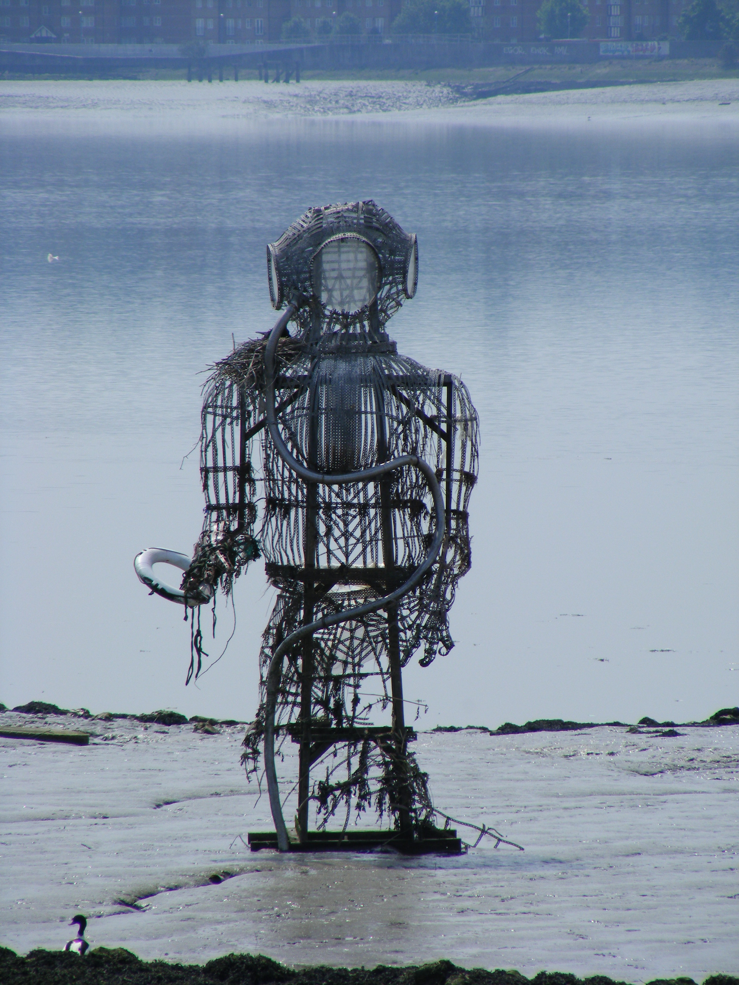 The Diver sculpture which stands in the River Thames.